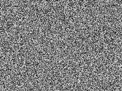 A "white noise" grayscale image. Each sample is a pseudo-random integer in the range 0..255, chosen with uniform distribution. The choices are "independent" to the extent that the outputs of the pseudo-random number are assumed to be. Image created by J. Stolfi with a C program.